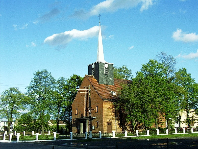 Immaculate Conception church in Miłkowice, Poland